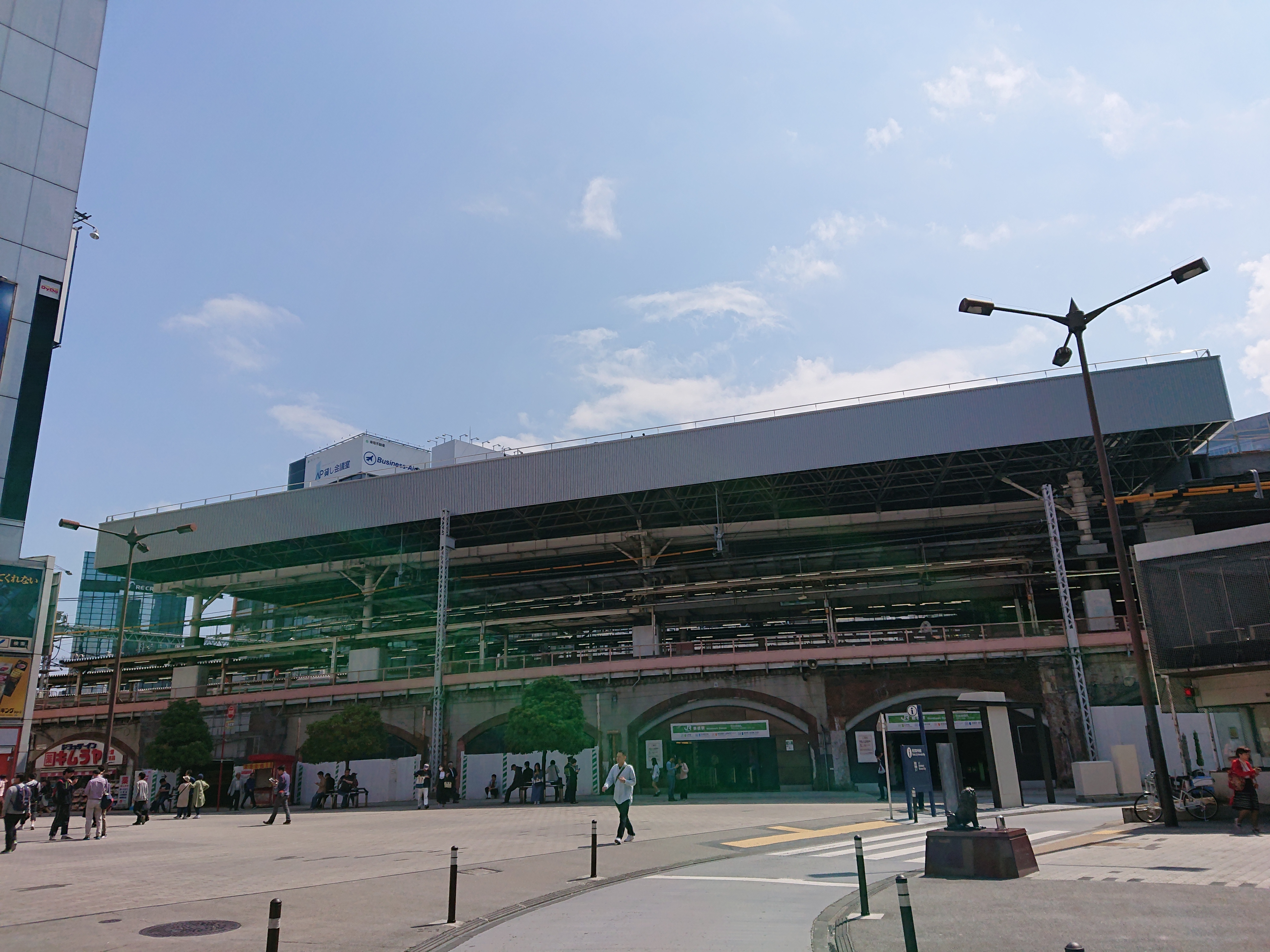 Shimbashi Station, at Minato, Tokyo, Japan